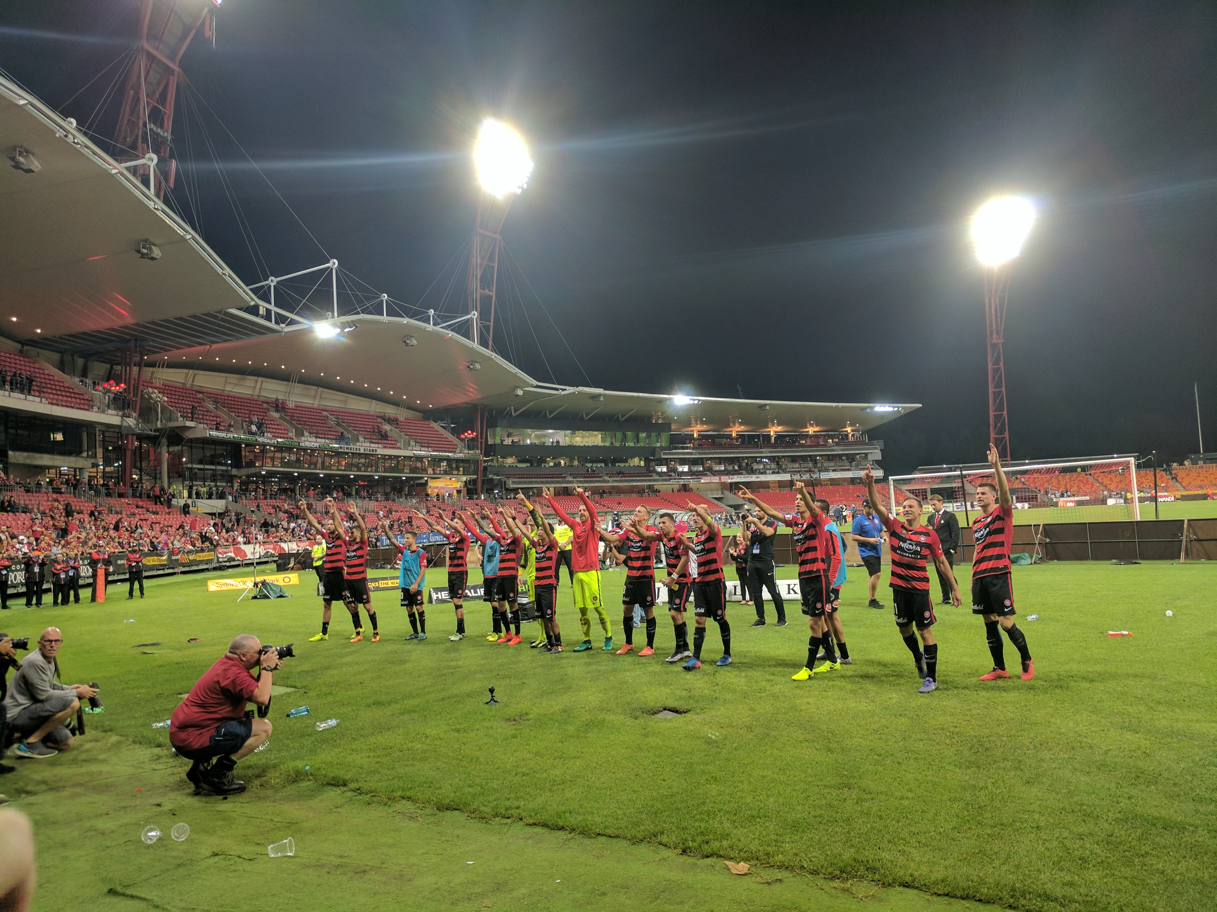 Western Sydney Wanderers football club celebrating after winning a game.